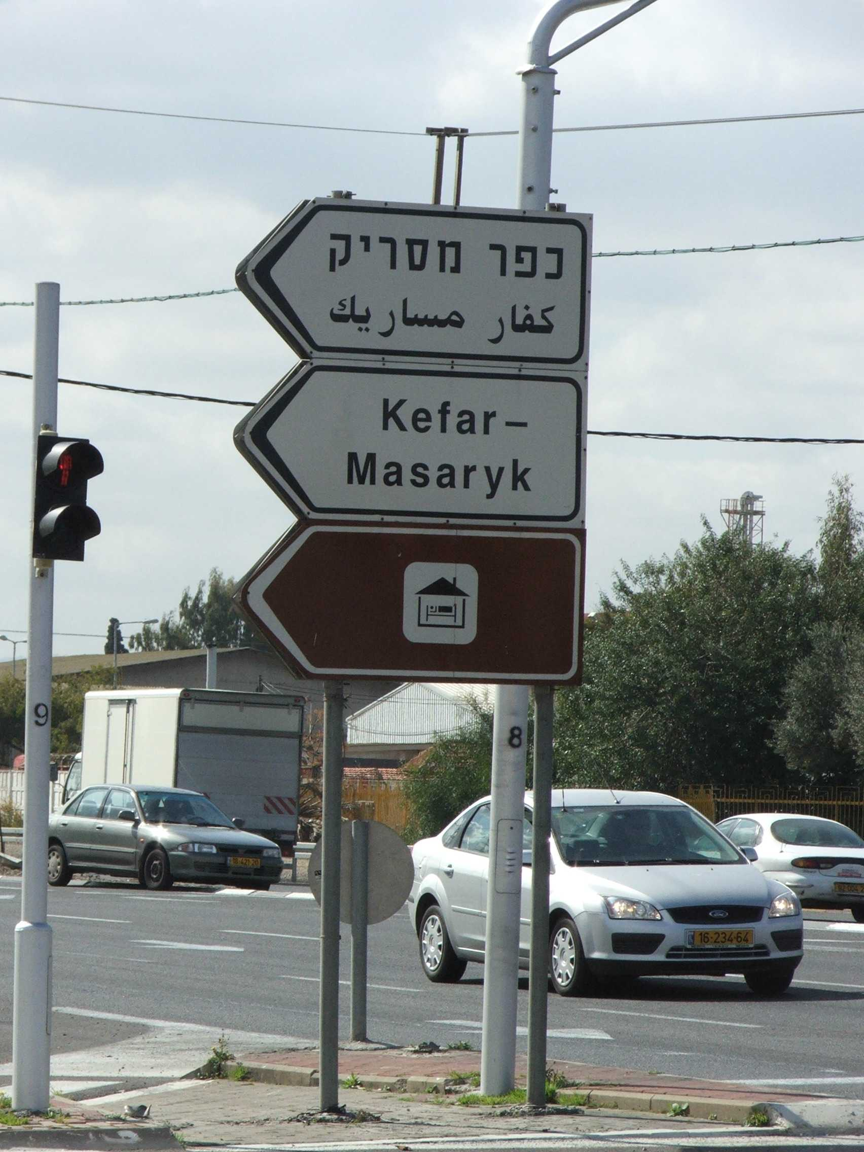 Road sign to kibbutz Kfar Masaryk north of Haifa in Israel.